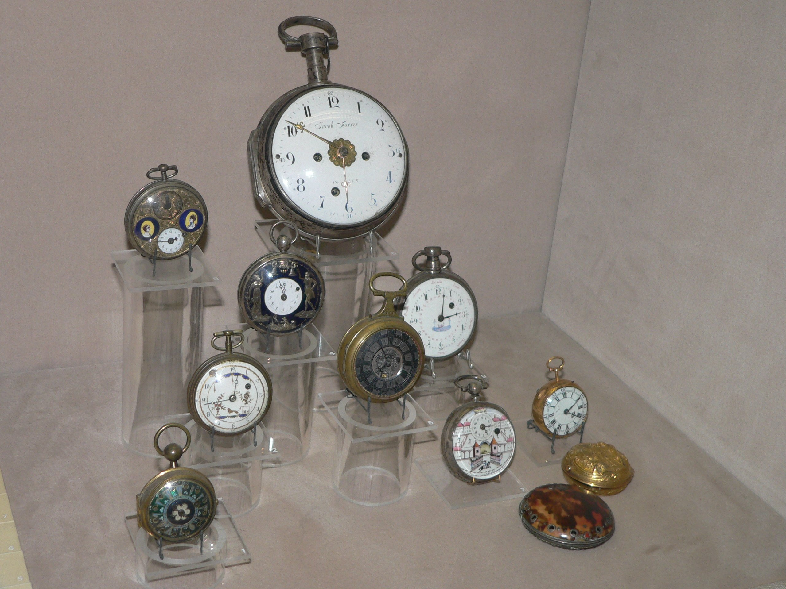 Swiss-made watches from the 18th to the 20th Century, musee d'Art et d'Histoire de Neuchatel